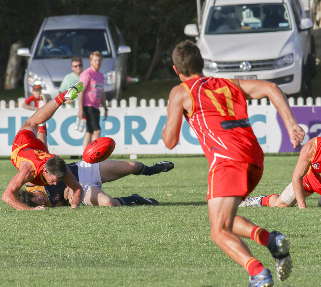 Action from an Australian rules football match between Bond University Bullsharks and South East Suns